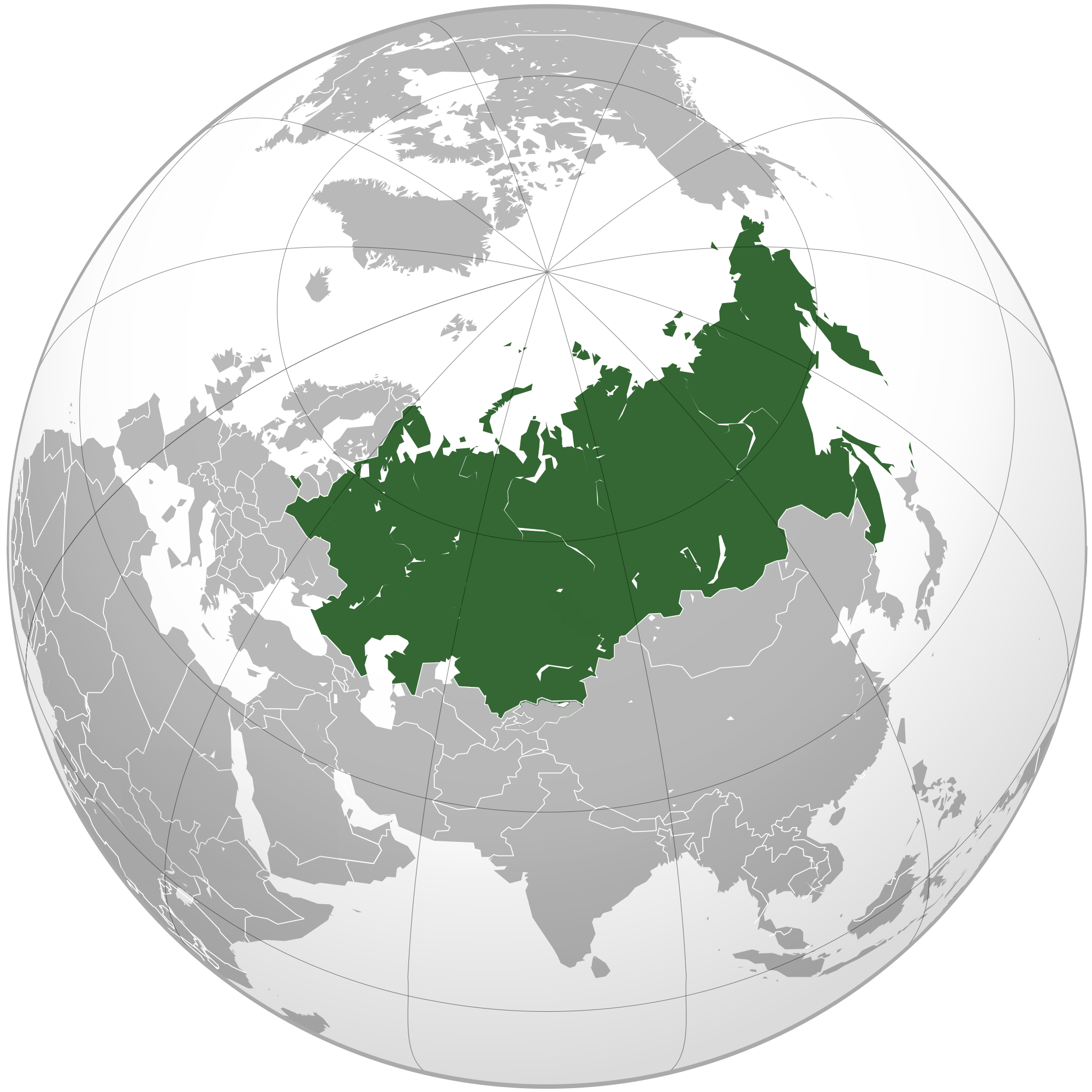 Eurasian Union.